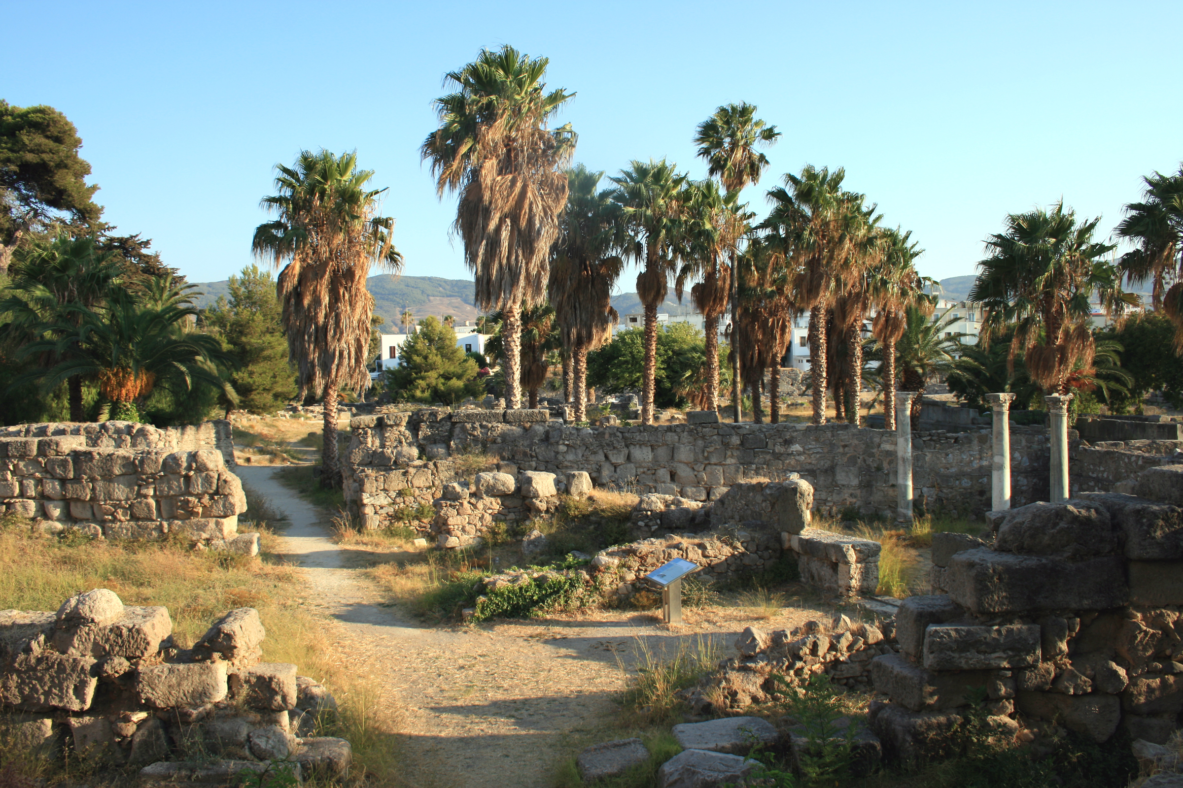 Archeologic site in Kos city, Kos island, Greece